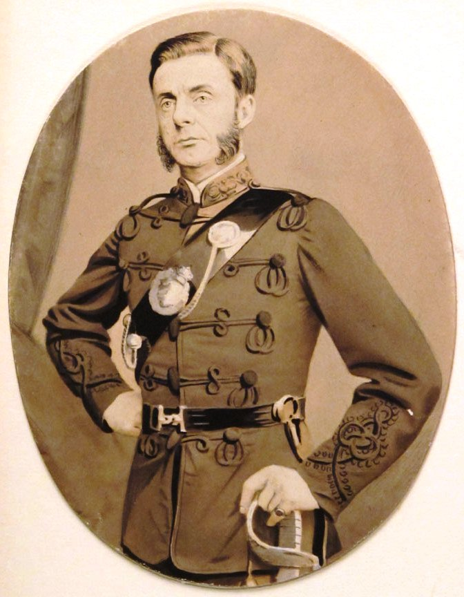 Photo of Harry Gem.